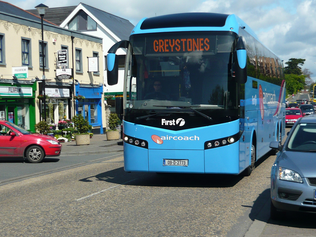 An Aircoach Jonckheere Volvo B12B SHV Coach.